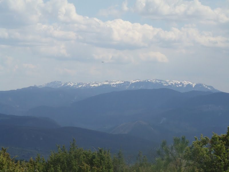 Mount Jahorina seen from Gradina - Mrkovići, Sarajevo, Bosnia and Herzegovina